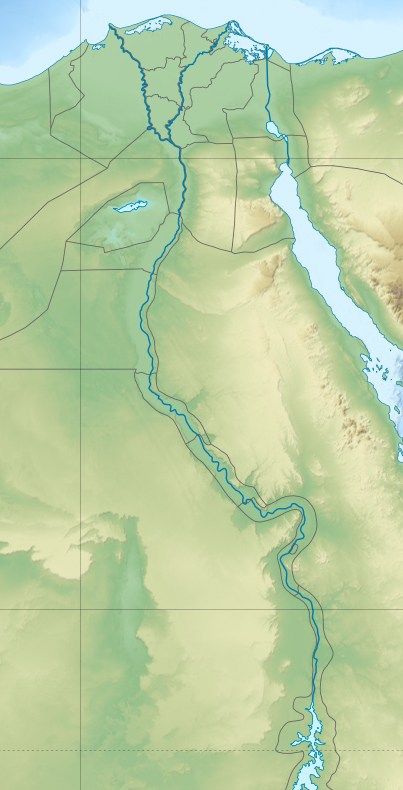 extraction from File:1000px-Egypt_relief_location_map.jpg, useless for tne ancient nomes map parts of the national terrytory of the modern Egypt deleted